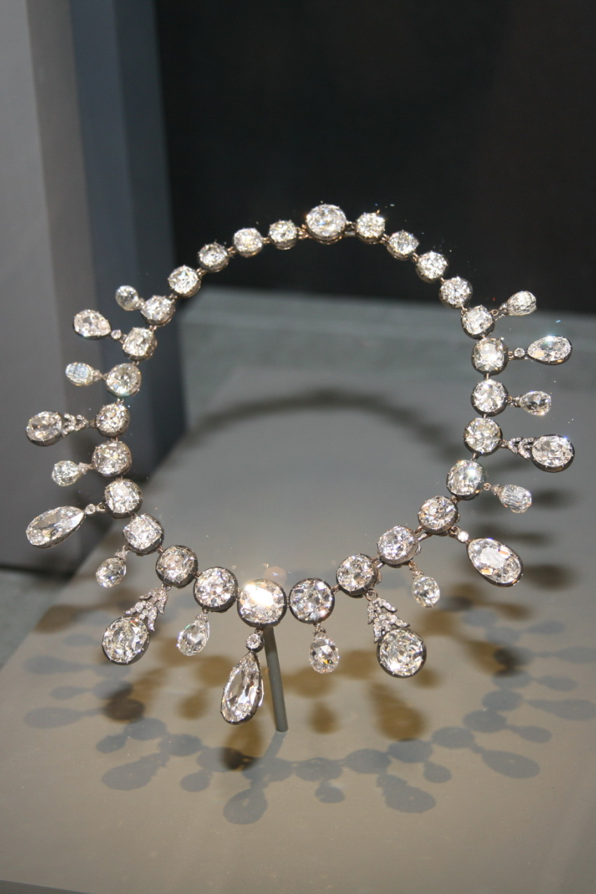 The Napoleon Diamond Necklace on display in the Smithsonian Institution in Washington D.C., United States.